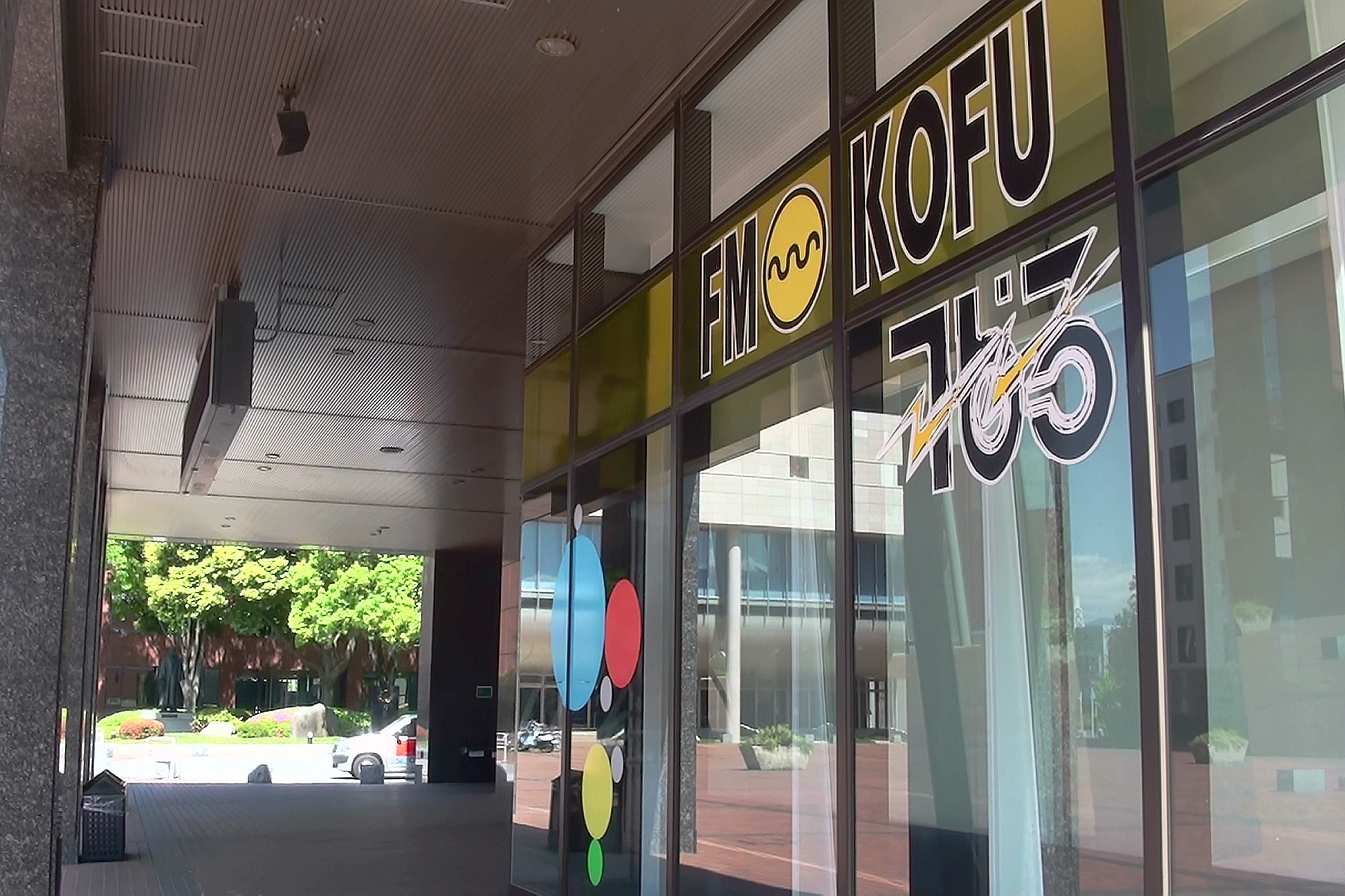 FM Kofu studio which there is in Yamanashi gakuin campus